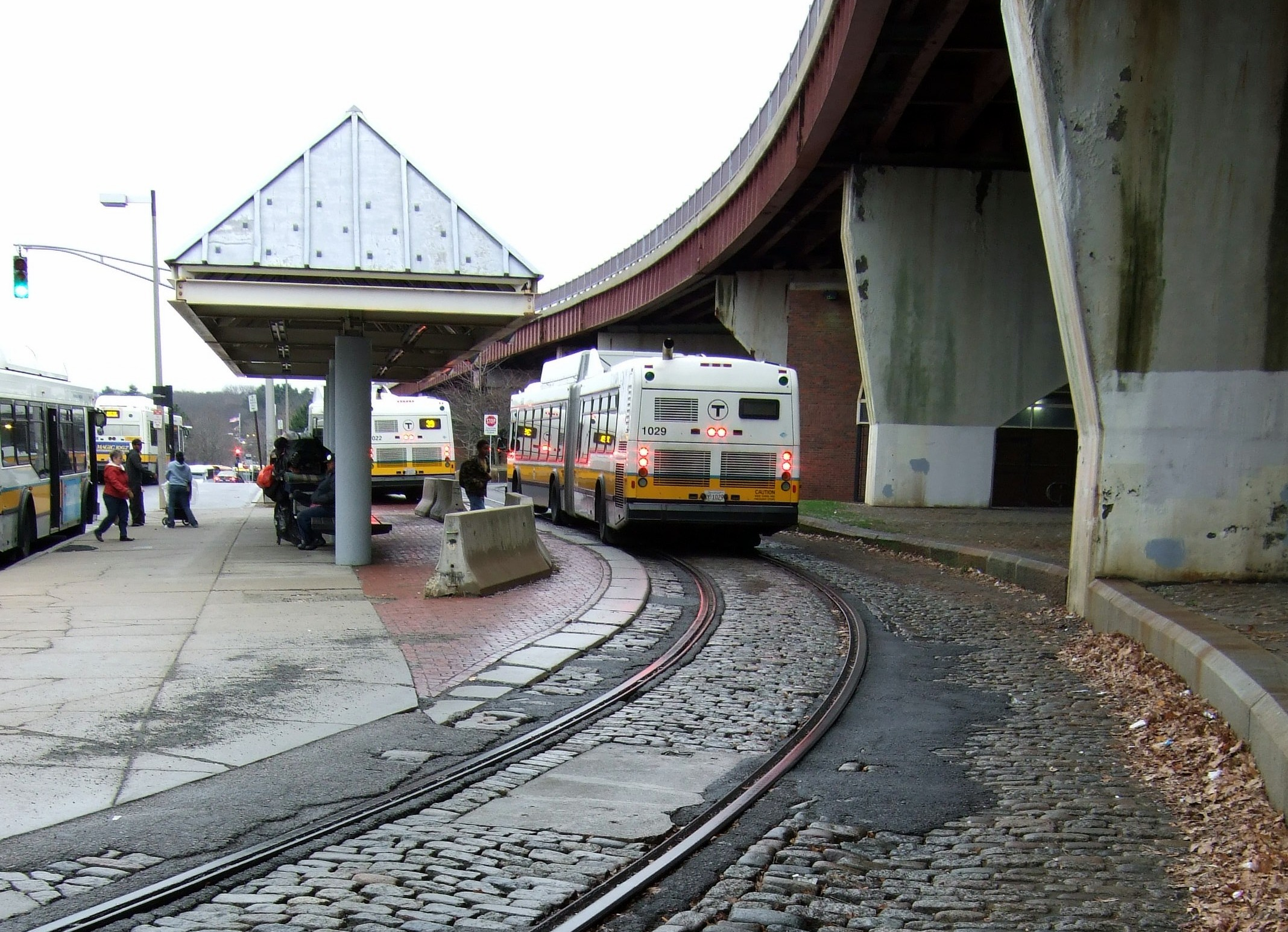 A #39 Forest Hills-Back Bay Station 60 foot articulated bus utilizing the "suspended" streetcar loops at Forest Hills Station